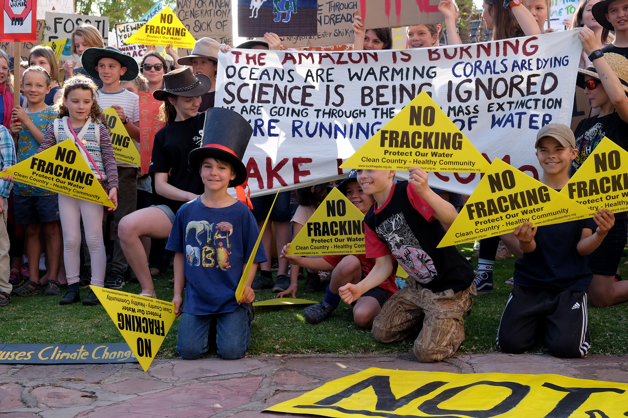 ALICE-SPRINGS-20-SEPT-2019-STRIKE-00006